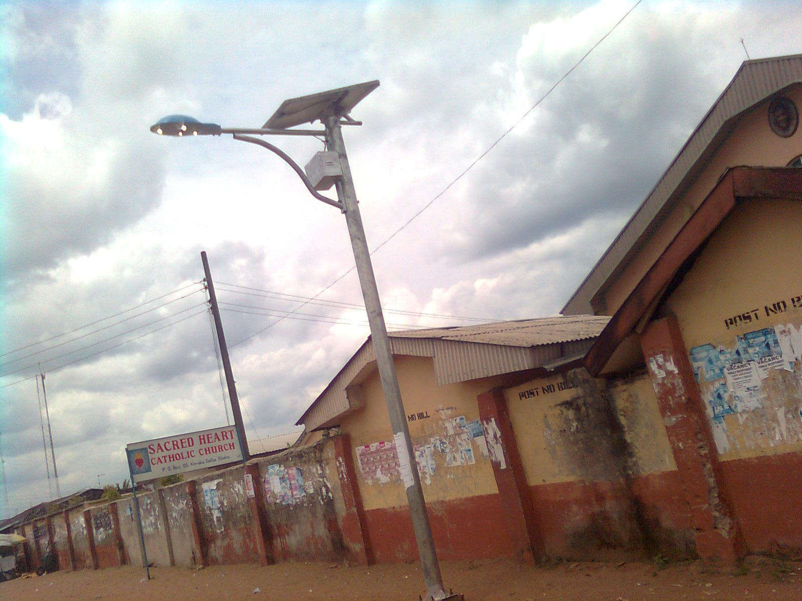 Street in Abraka